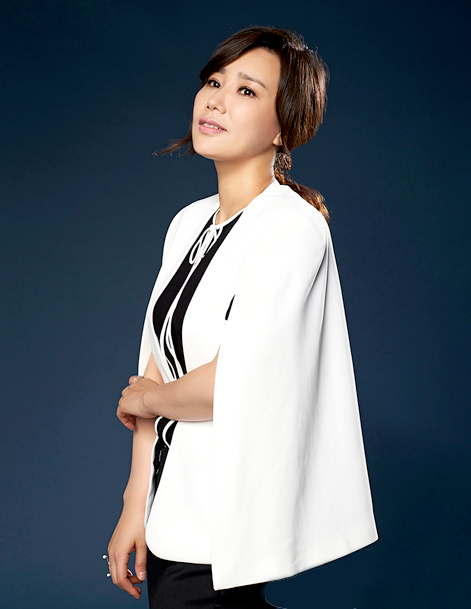 Young Sook Shin is the most famous musical actress in South Korea.